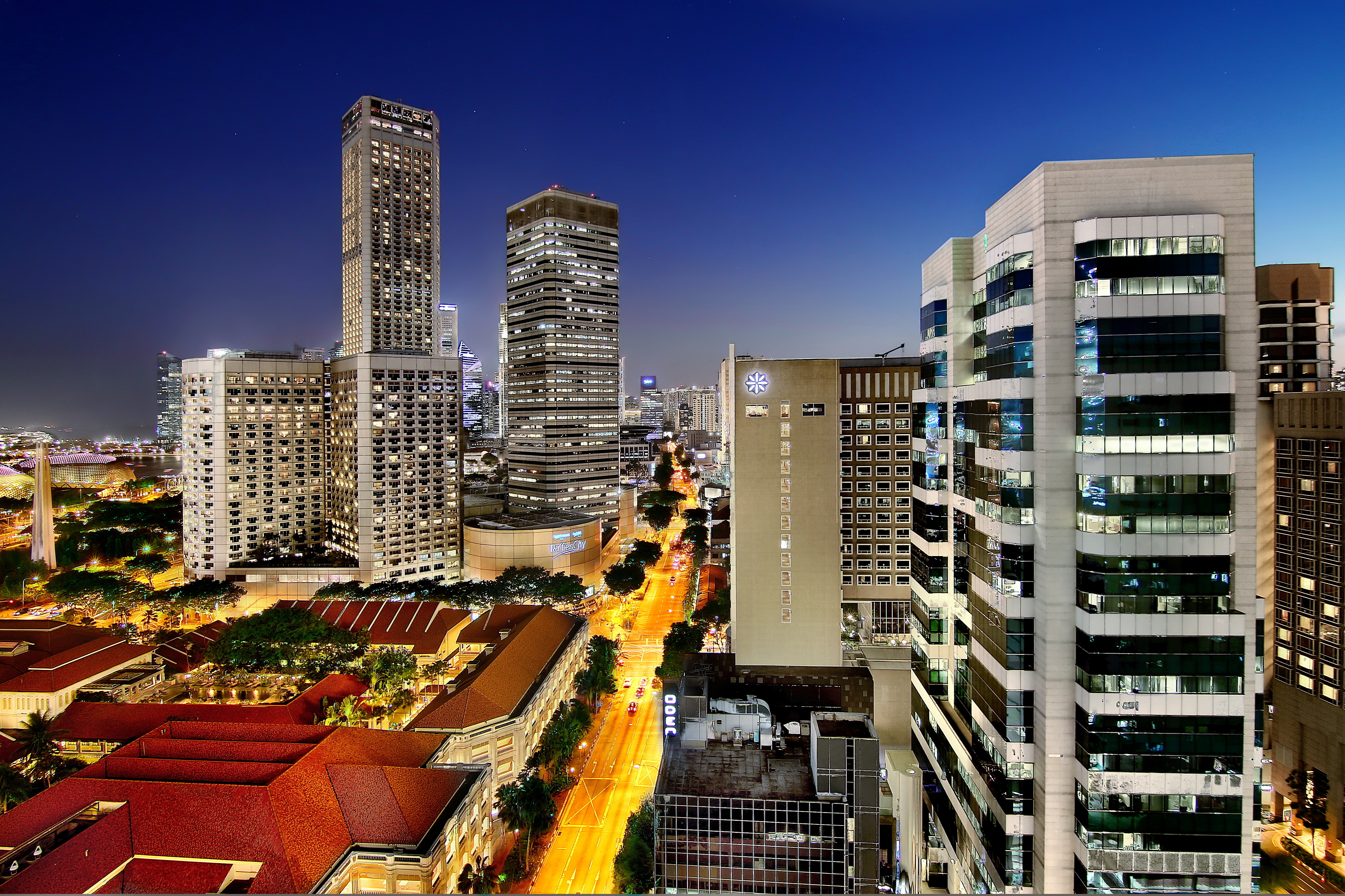 You get a different look at blue hour 7 exposure DRI to handle high contrast areas